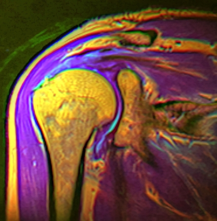 False color shoulder MRI